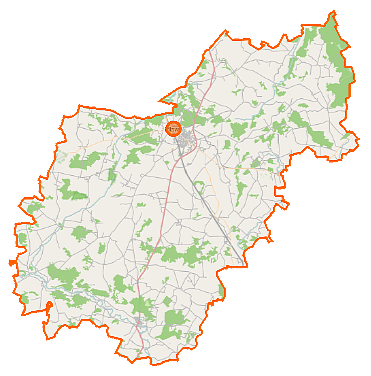 Map of Powiat mławski, Poland This map of Powiat mławski was created from OpenStreetMap project data, collected by the community. This map may be incomplete, and may contain errors. Don't rely solely on it for navigation. Border coordinates53.282520.0075←↕→20.750452.8285